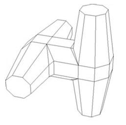 3D drawing of KOLOS armour block